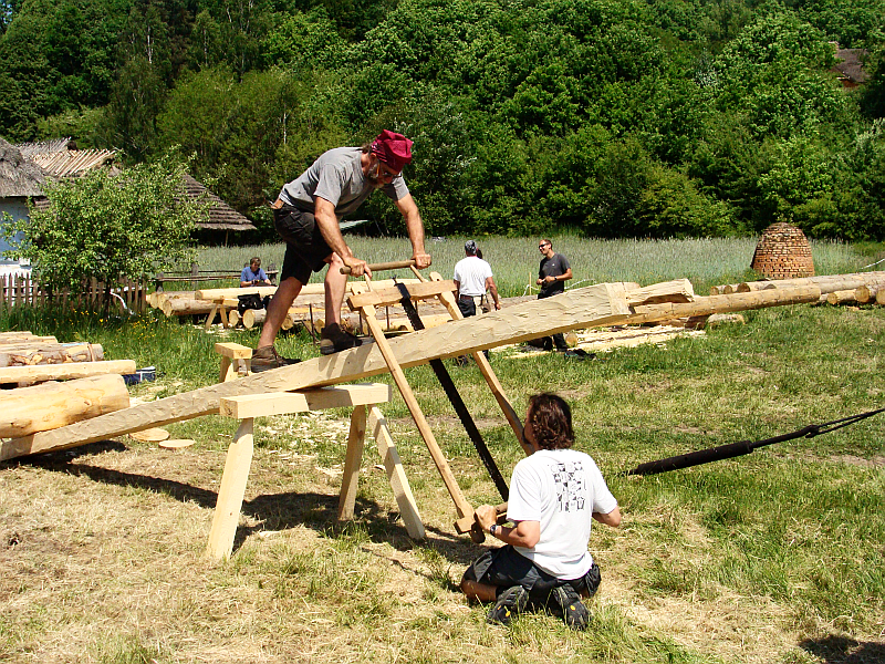 Construction of the synagogue roof replica at Sanok Skansen